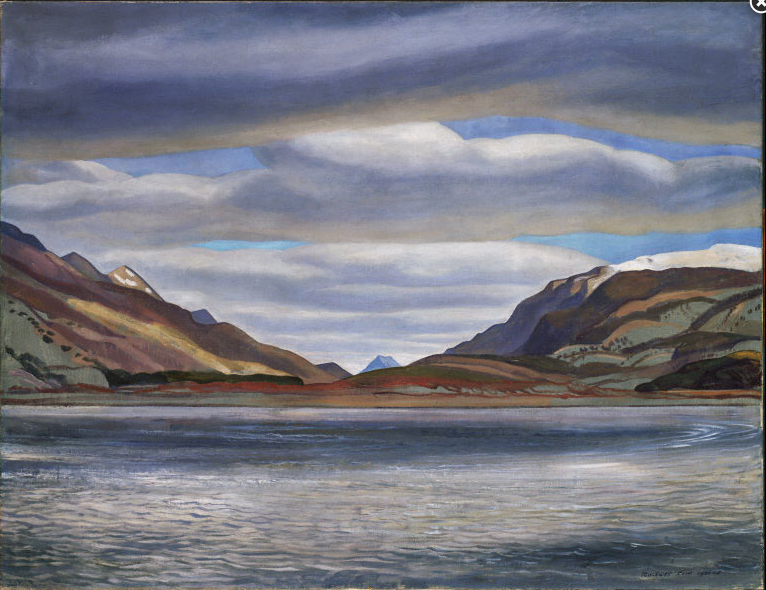 wrote: Powered by ideas of Christian socialism that valued poverty and hard work, Rockwell Kent found artistic inspiration in harsh and remote locations across the globe, from the rugged terrain of Monhegan Island, off the coast of Maine, to Tierra del Fuego, Chile. Acknowledged by critics as a direct inheritor of Winslow Homer’s heroic realism, Kent’s paintings often explore the theme of man’s relative insignificance in relationship to the monumental forces of nature. Kent’s later style, evident in Azopardo River, one of his Tierra del Fuego landscapes, emphasizes nature’s stark geometry by reducing the landscape, clouds, and open sky into hard-edged patterns of simplified shapes, contours, and cold colors that convey the harshness of the natural world. The rich impasto and surface texture of earlier works has now given way to a thin, sleek finish. The vastness of the valley and expansive sky emphasize nature’s power, which was typical of Kent’s later work. When asked why he travelled such distances to paint, Kent said, “To such the wisdom of St. Augustine replies: ‘And the people went there and admired the high mountains, the wide wastes of the sea and the mighty downward rushing streams, and the ocean, and the course of the stars, and forgot themselves.’ That [the Tierra del Fuego] paintings may convey to those who see them some of the elation of self-forgetfulness is all that they are meant to do.”